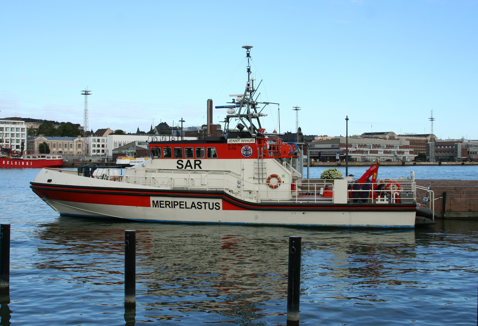 Rescue Cruiser PR Jenny Wihuri, South Harbour, Helsinki, Finland. The vessel is the flagship of The Finnish Lifeboat Institution, built in 1999 in Uusikaupunki.